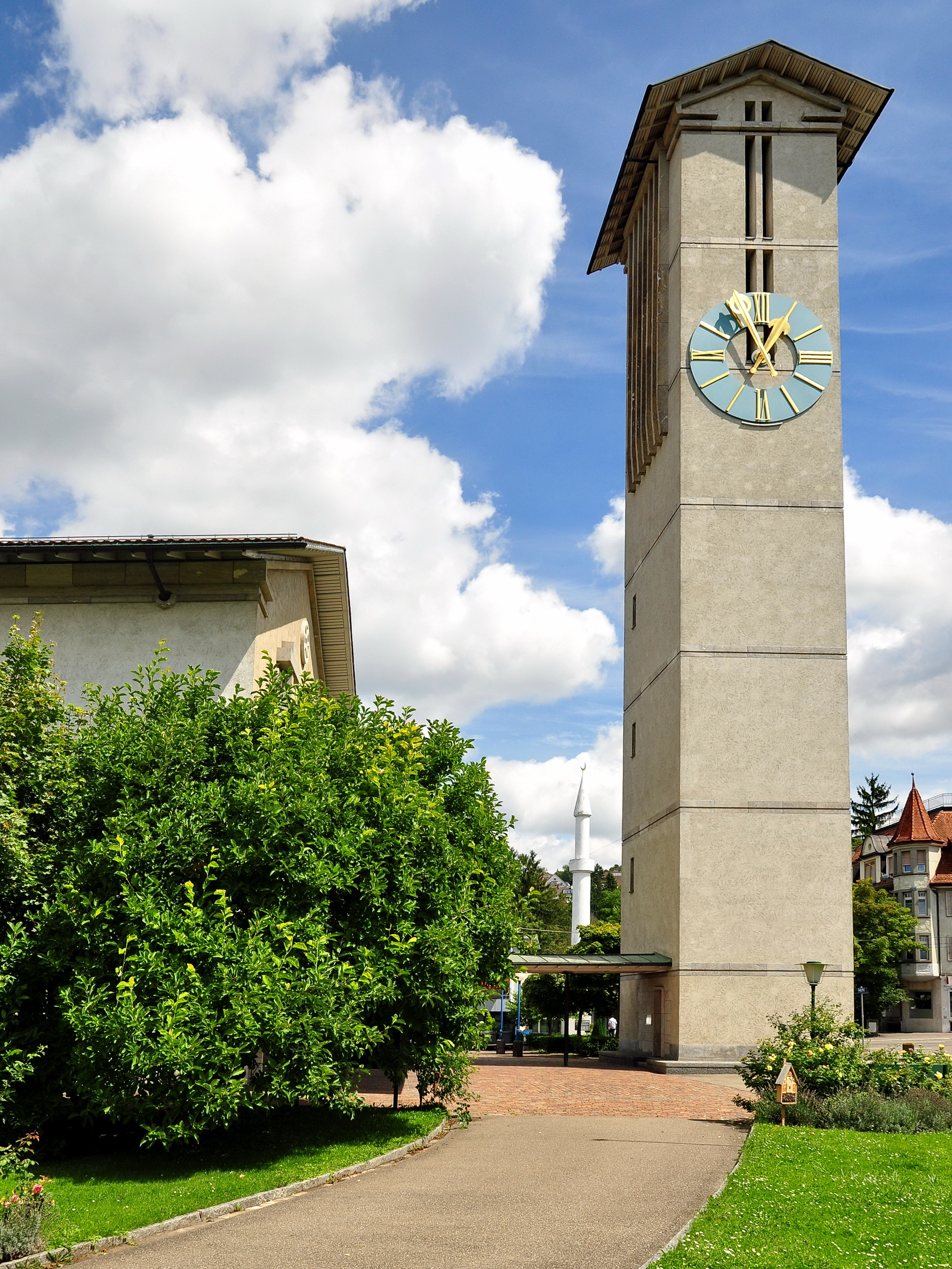 Zürich-Weinegg quarter : Balgrist church and Mahmud (Ahmadiyya) Mosque in Hirslanden quarter).